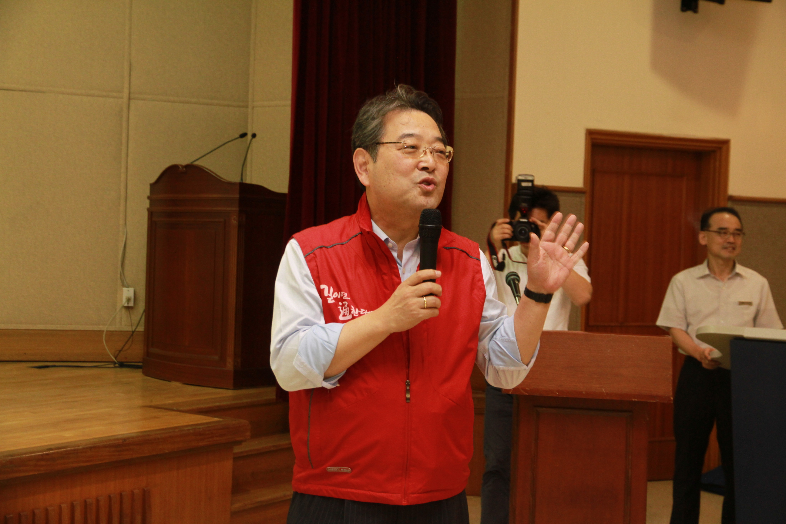 서울특별시 소방재난본부 소장 사진. Photos of Seoul Metropolitan Fire&Disaster Headquarters. 이 파일은 크리에이티브 커먼즈 저작자표시-동일조건변경허락 4.0 국제 라이선스로 배포됩니다. 단 누구인지 구별 가능한 특정 인물이 사진에 포함되어 있을 경우 사용 전에 서울특별시 소방재난본부 및 해당 인물의 승인을 받으셔야합니다. 감사합니다. 최광모.